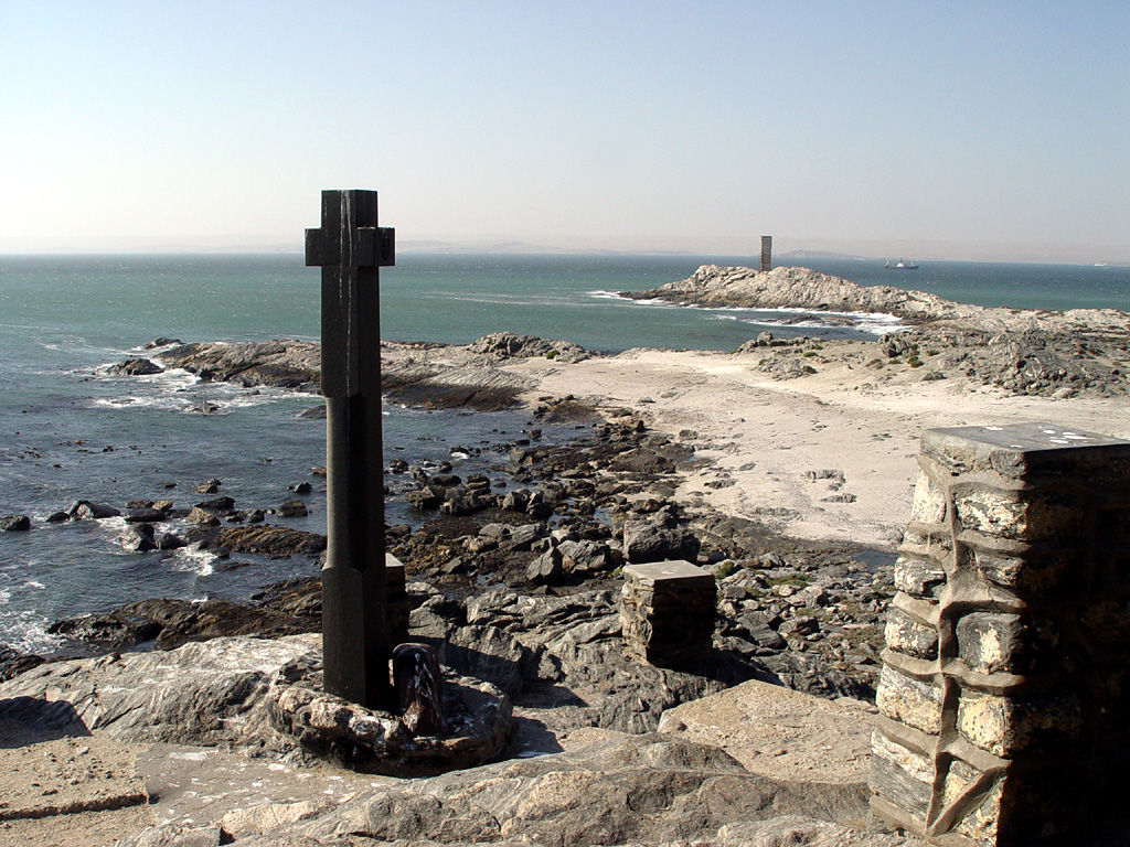 A replica of the original cross planted by the Portuguese seafarer Bartolomeu Dias in July 1488: "On a lofty point on the Lüderitz Peninsula, Bartolomeu Dias in 1488 erected a padrão or stone cross on his homeward voyage to Portugal, after he had rounded the Cape of Good Hope. A replica now stands on the spot, known as Diaz (sic) Point, with the original kept – as found, in pieces – in museums in Cape Town and Lisbon. Seen from a sailing boat at sea, Diaz Point gains its true perspective, a rocky headland with its back to the desert. A colony of Cape fur seals lives at the foot of the point." (via)